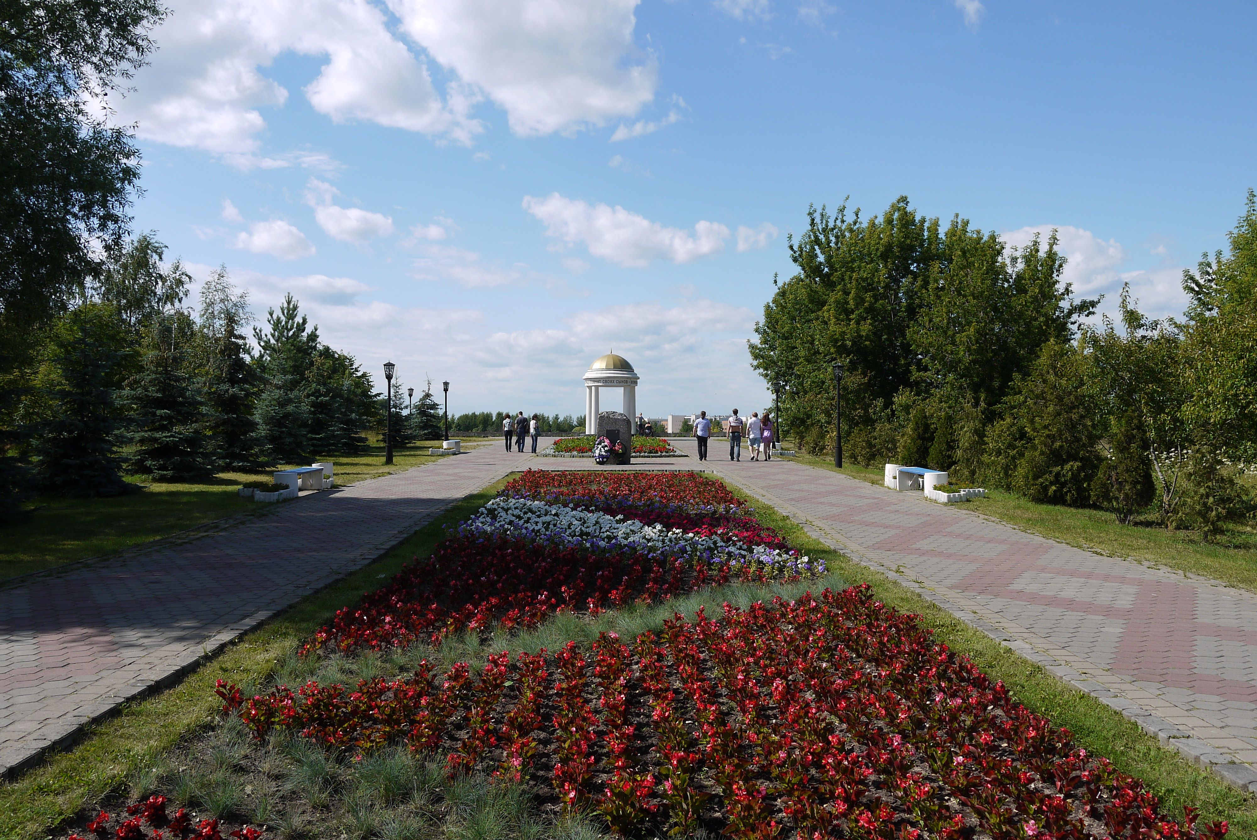 War Memorial and Gardens on the banks of the Volga at Dubna, Russian Federation. This is the monument to soldiers-internationalists, who died in Afghanistan.